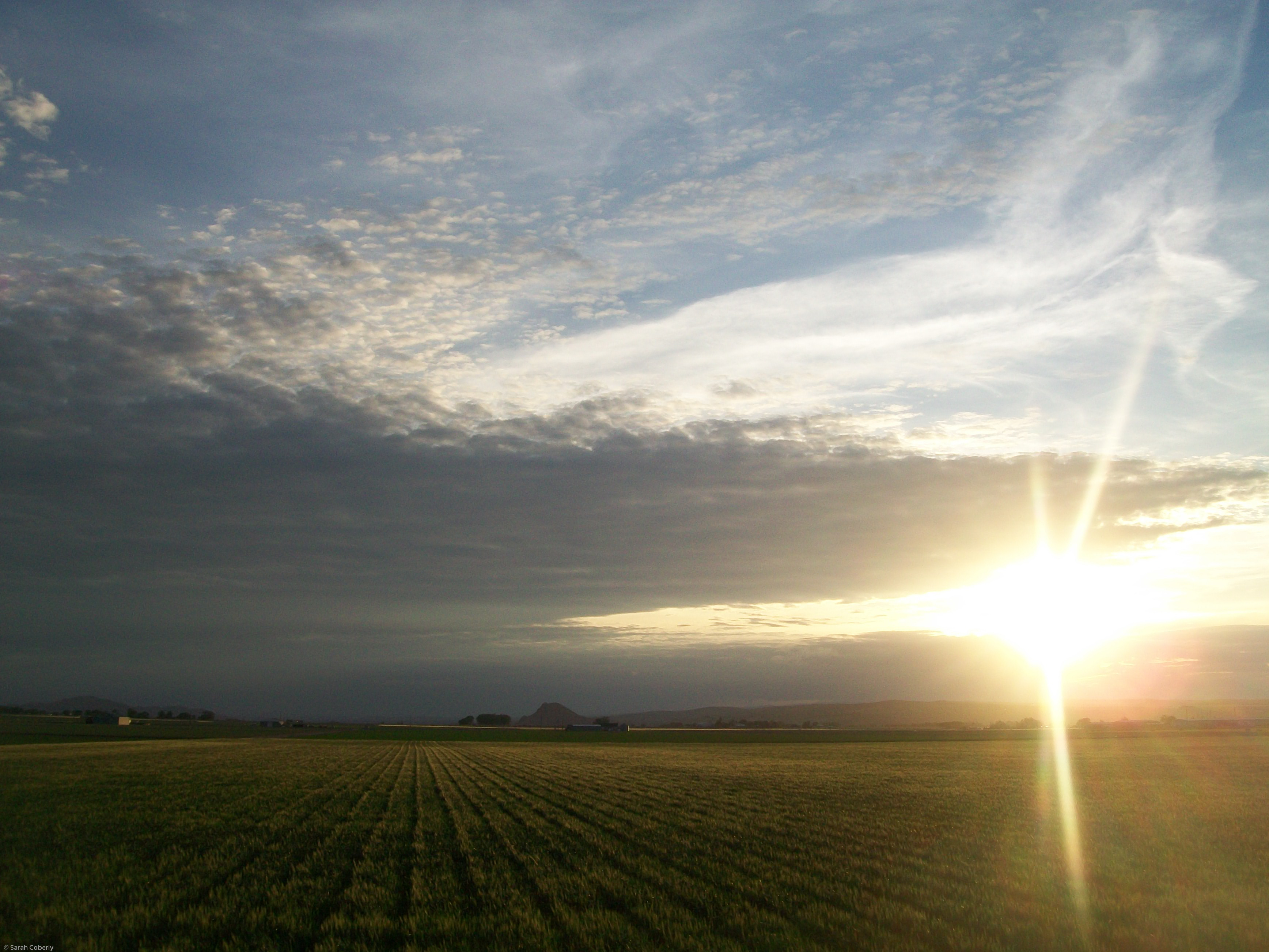 Storm clouds either coming in or leaving during a sunset in Ontario, Oregon over some wheat fields. Storms are very frequent in the summer due to the constant cool and warm fronts.